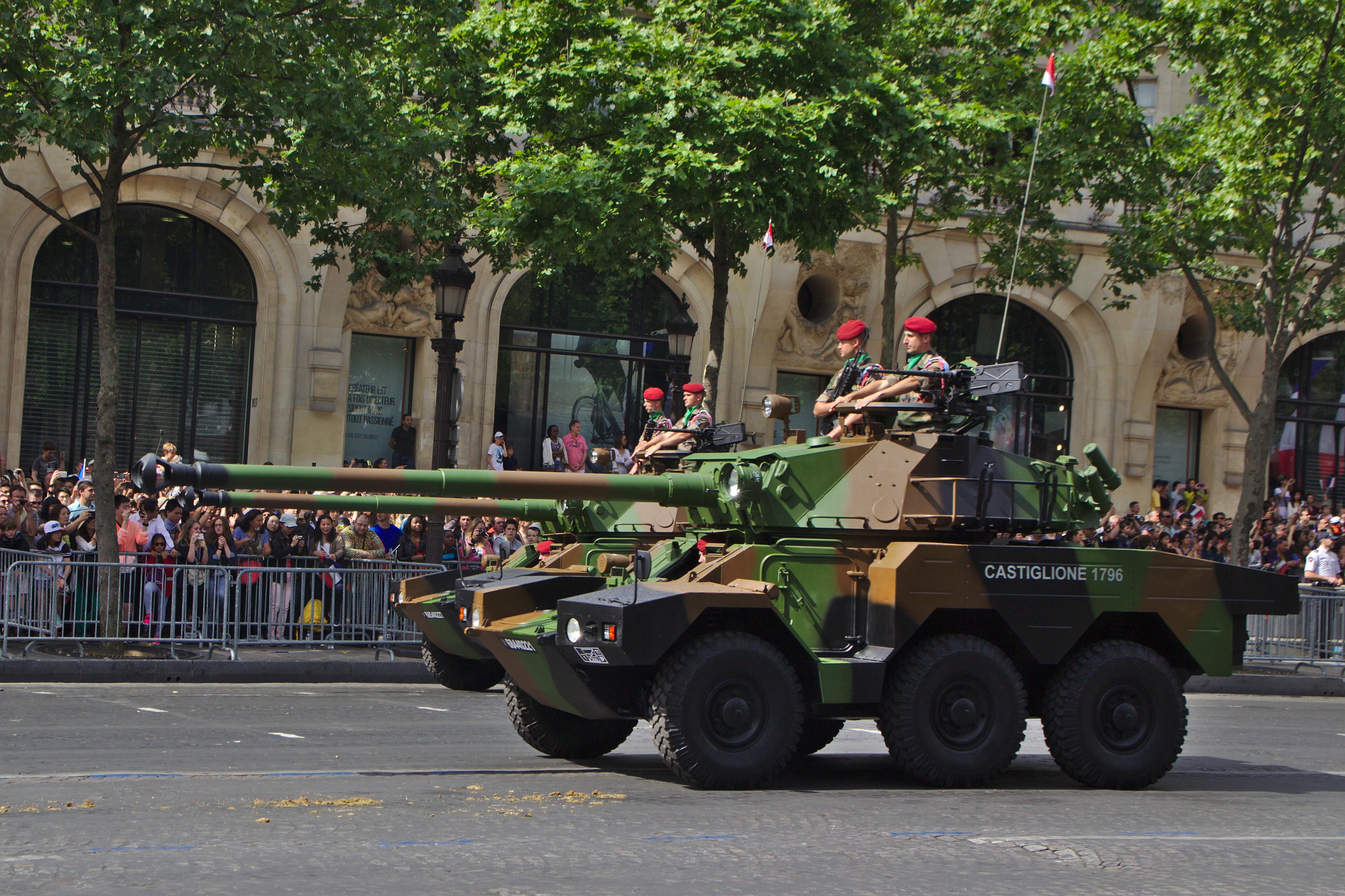 Bastille Day 2015 military parade in Paris.